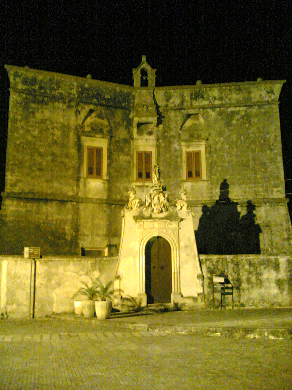 D'Amely baronal Palace in Melendugno), Province of Lecce, Italy